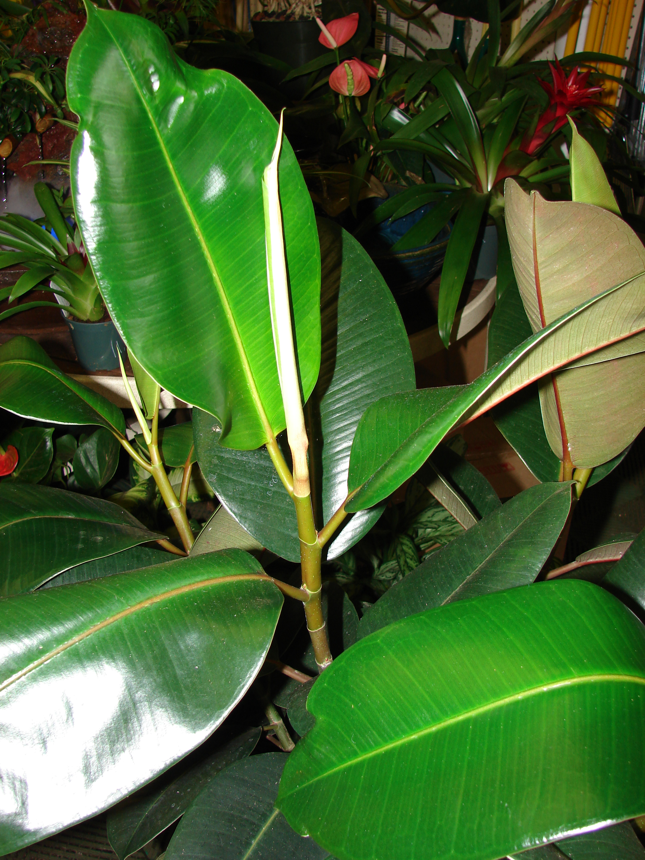 Ficus elastica (habit). Location: Maui, Kula Ace Hardware and Nursery